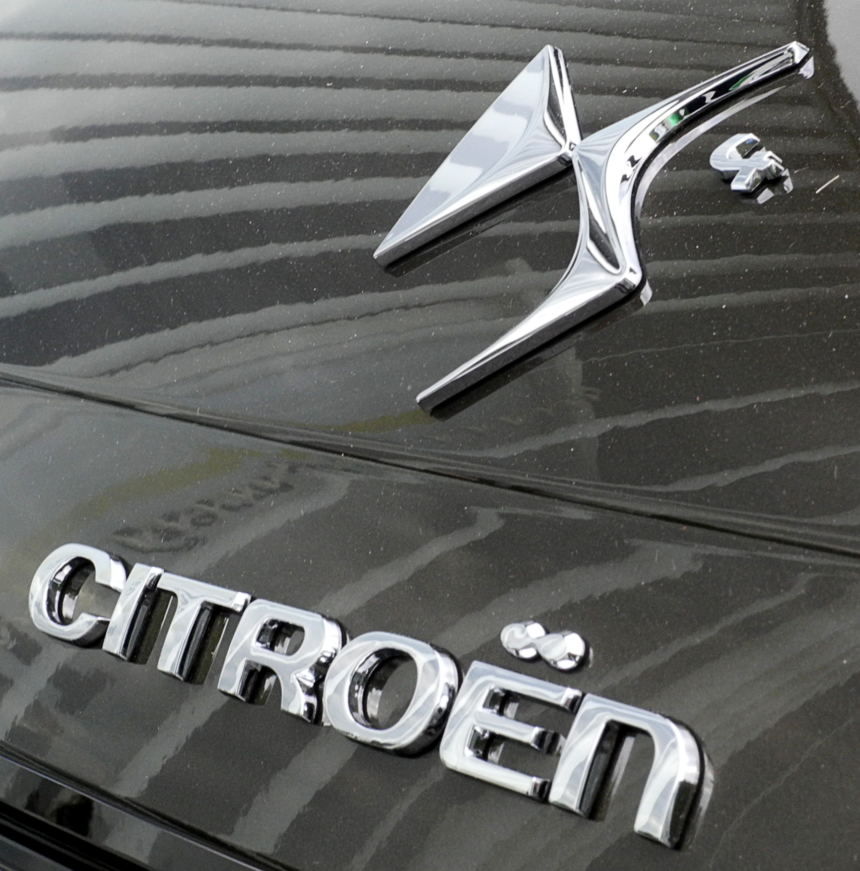 Citroën DS4 HDi 165 SportChic